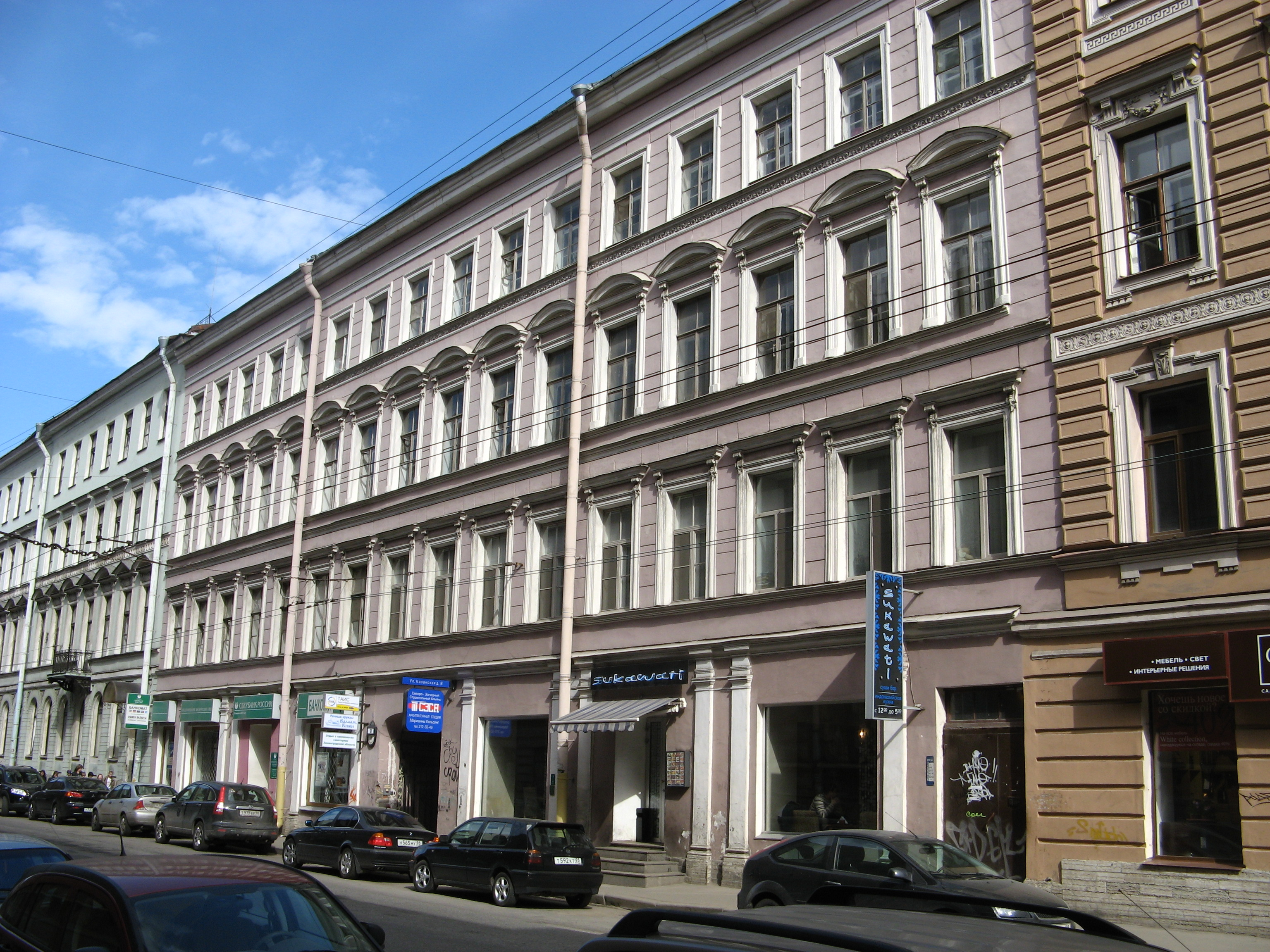 Kazanskaj street, 8 (Saint-Petersburg)